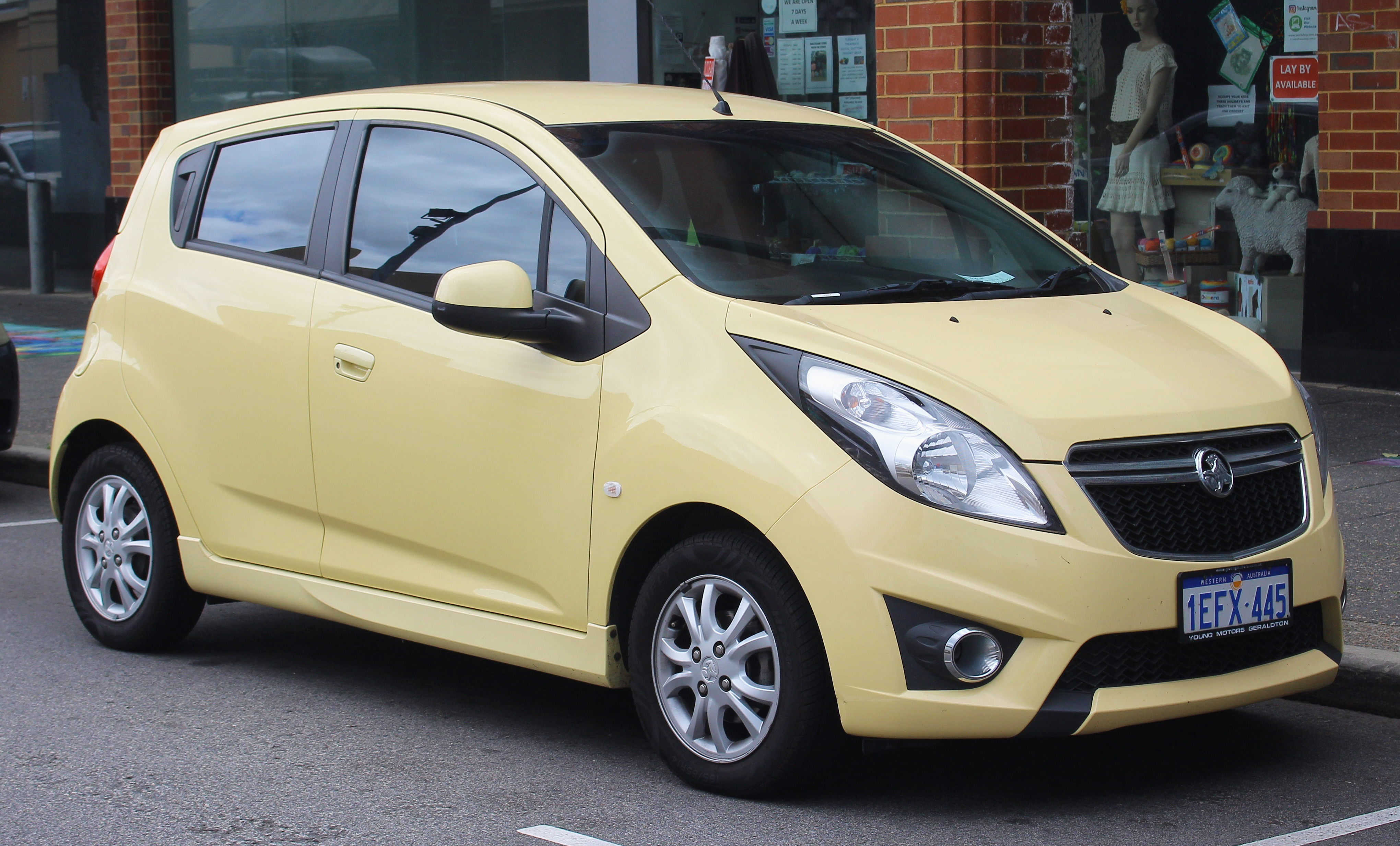 2013 Holden Barina Spark (MJ MY13) CD hatchback. Photographed in Fremantle, Western Australia, Australia.